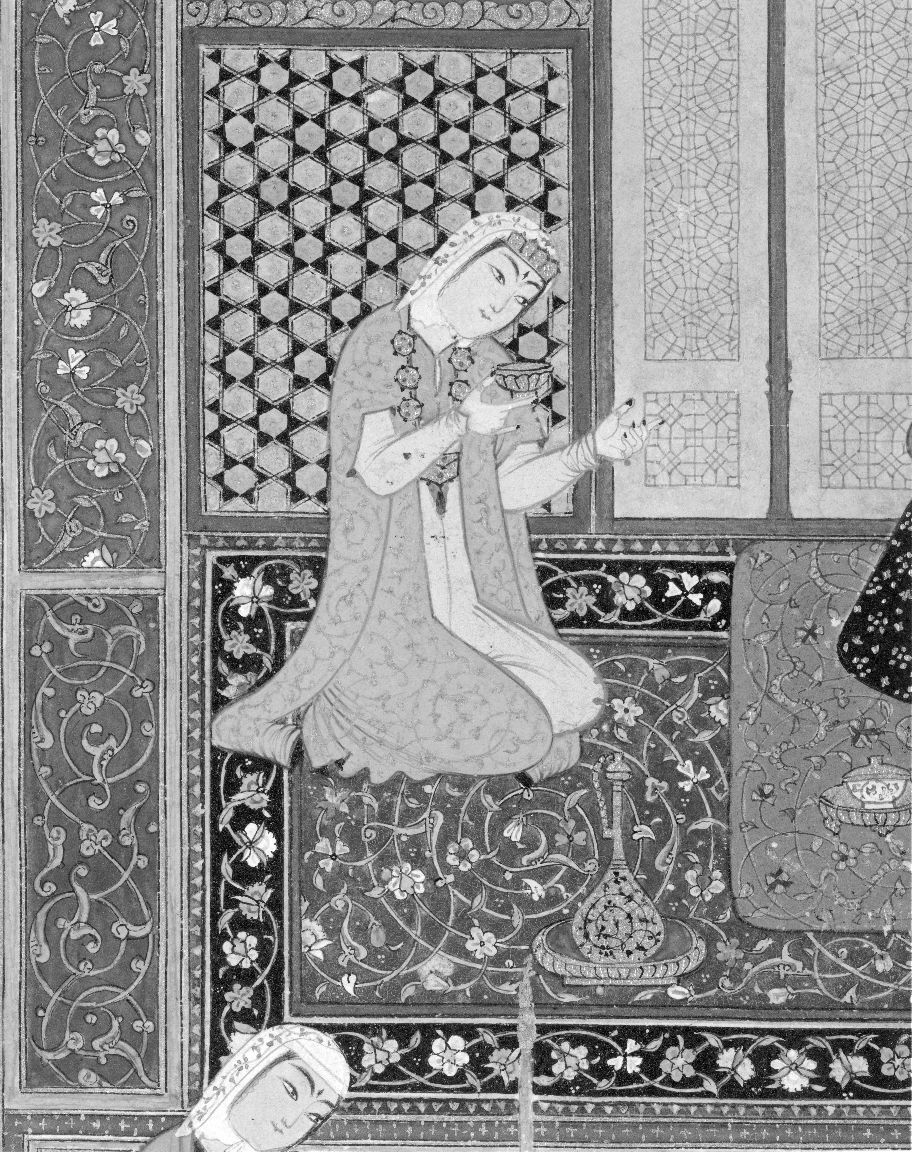 Folio from an illustrated manuscript; Codices